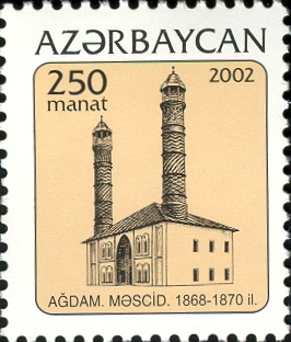 Stamp of Azerbaijan. Mosque in Agdam, Azerbaijan.